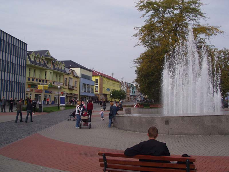 Humenné, Slovakia